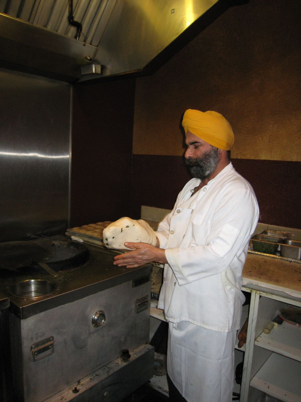 Chef preparing naan to be baked in a tandoori.